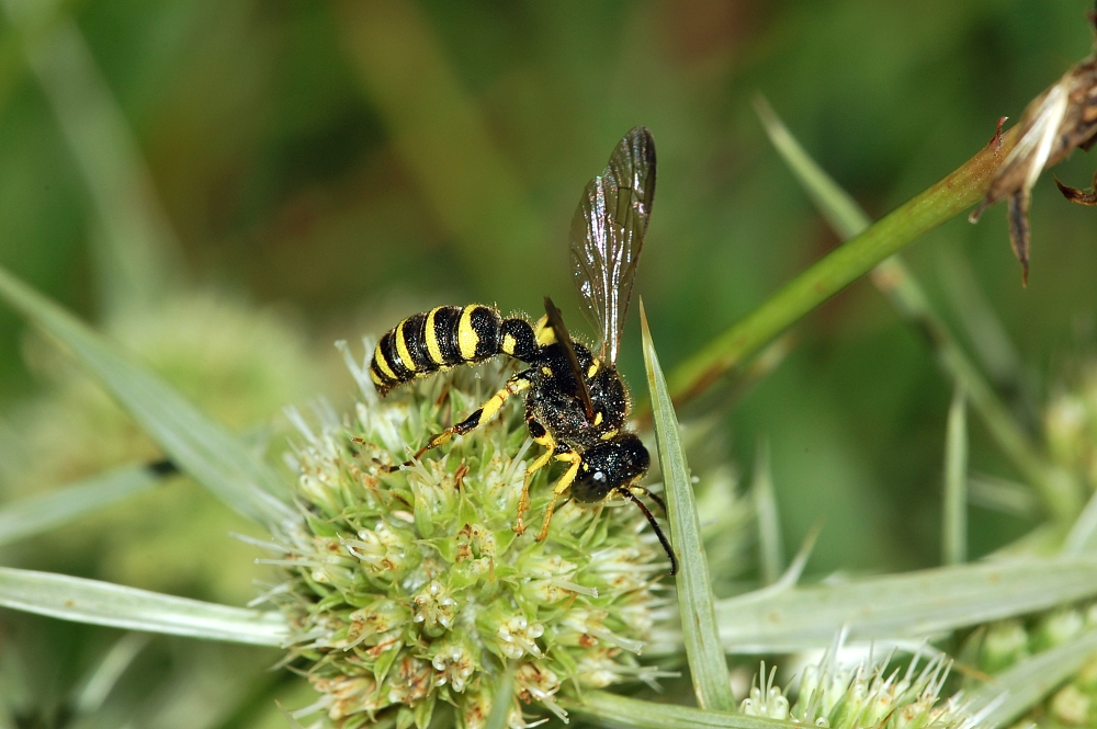 Cerceris species, Schwanheim Dune, Frankfurt/Main, Germany